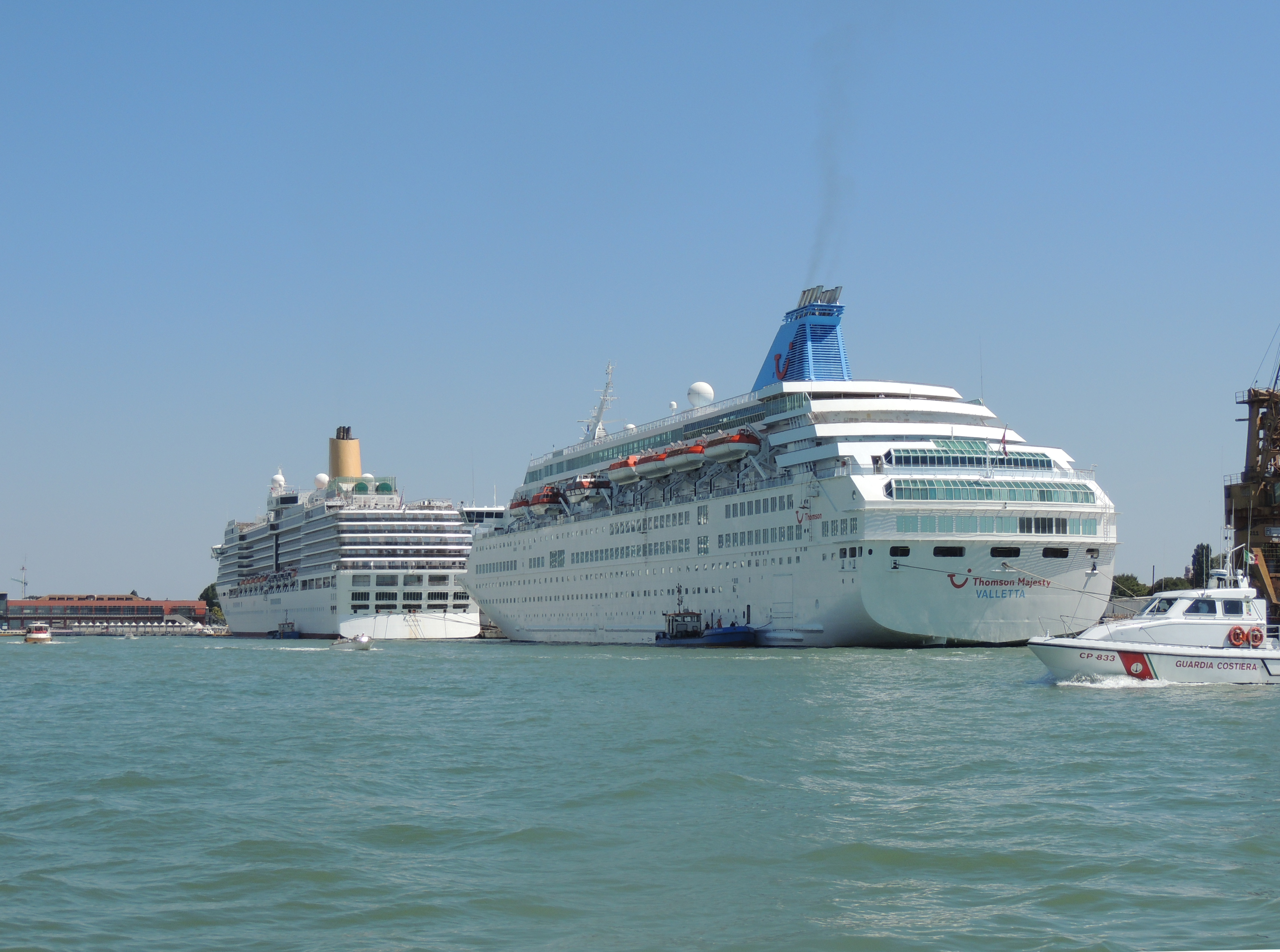 Thomson Majesty and Arcadia in Venice